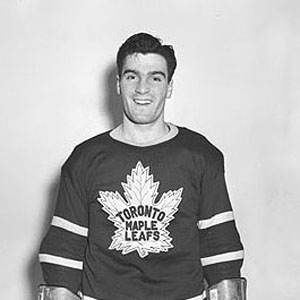 Ray Ceresino